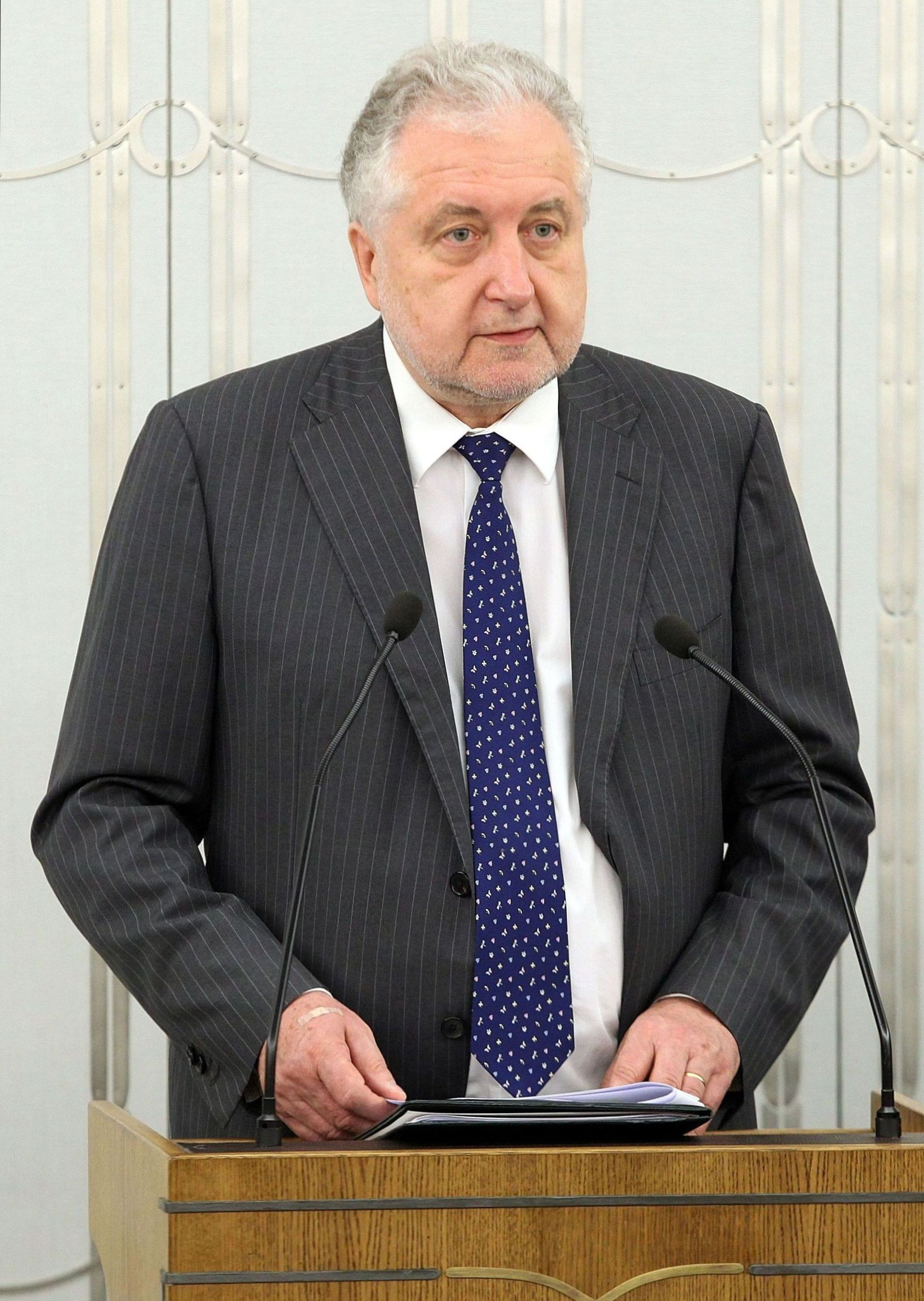 President of the Constitutional Tribunal of the Republic of Poland Andrzej Rzepliński in the Polish Senate